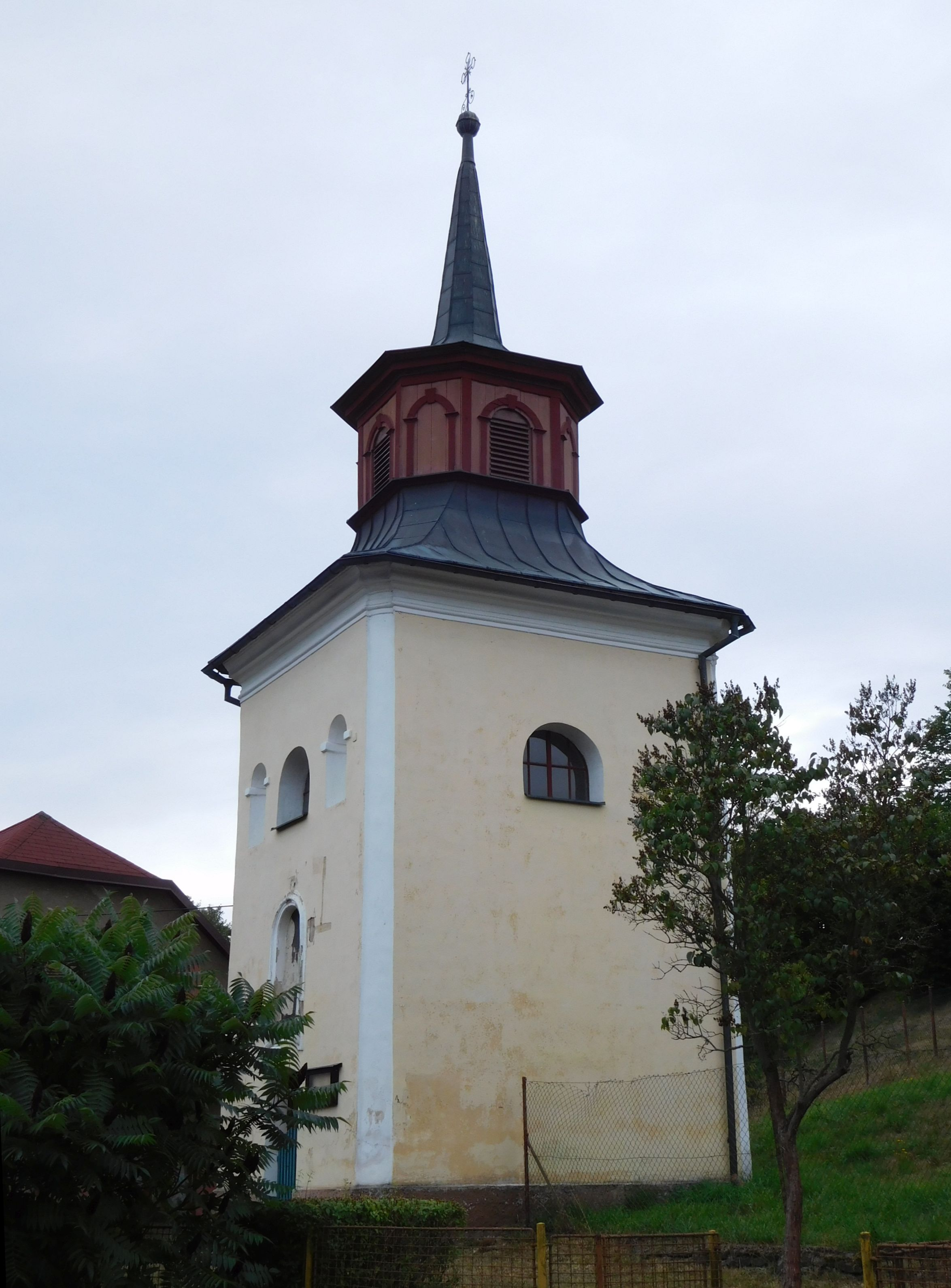 Trhonice - Zvonice Panny Marie